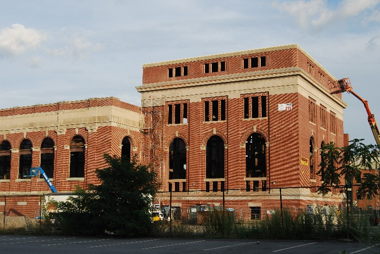 South Street Station, Providence, Rhode Island